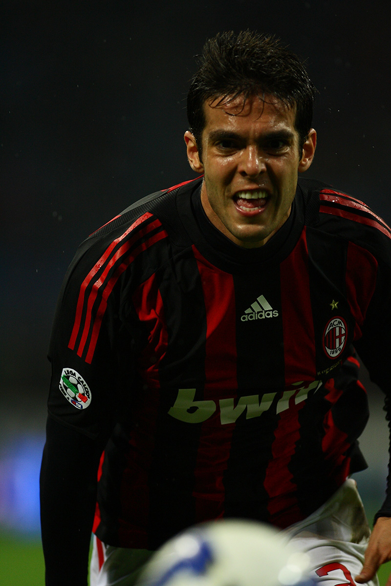 Football : Kaka of AC Milan in action during the Serie A match between Milan and Torino at the Stadio Meazza on April 19, 2009 in Milan, Italy. (Photo by Tsutomu Takasu)